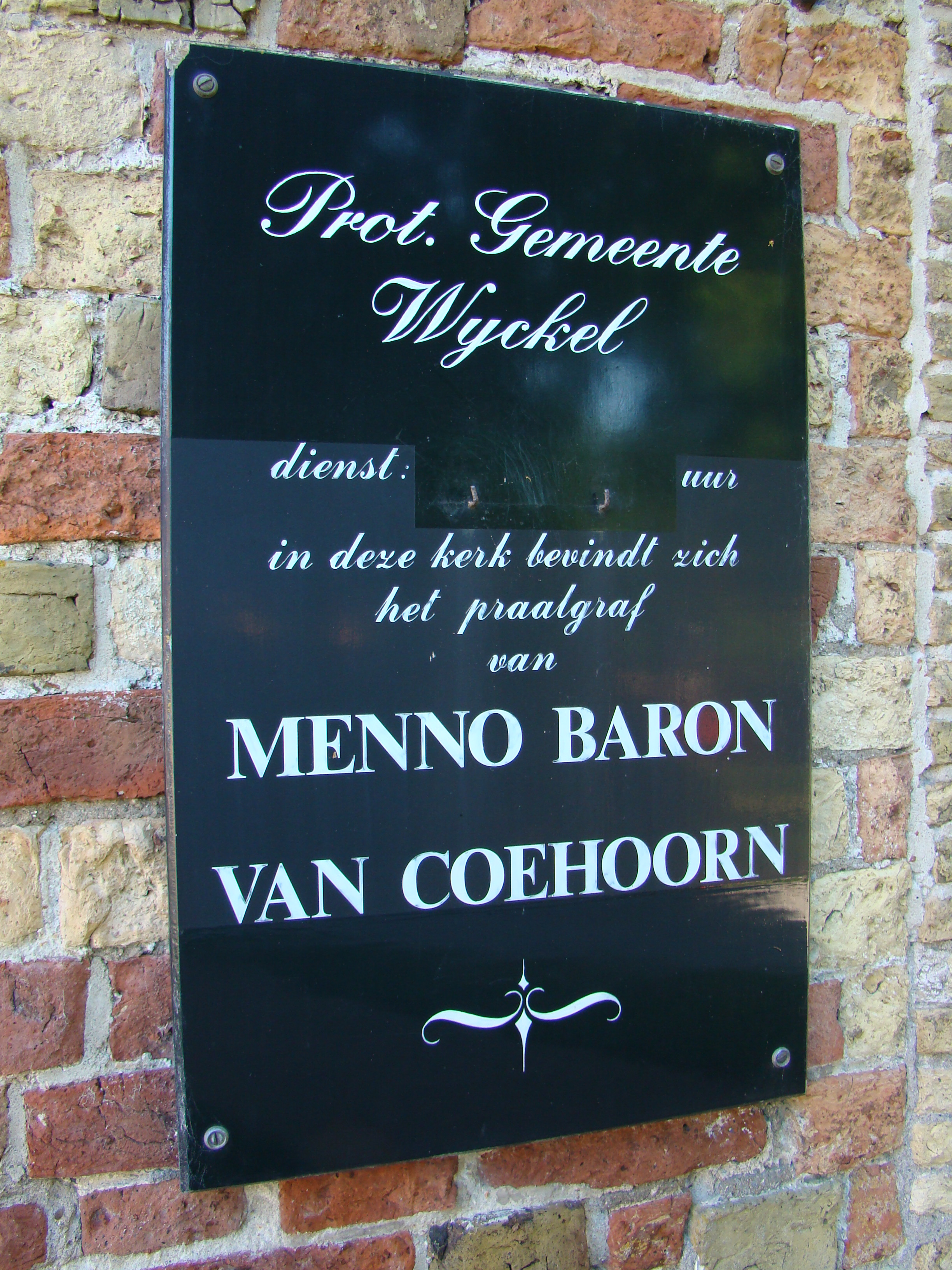 Impressions of Wijckel, Netherlands